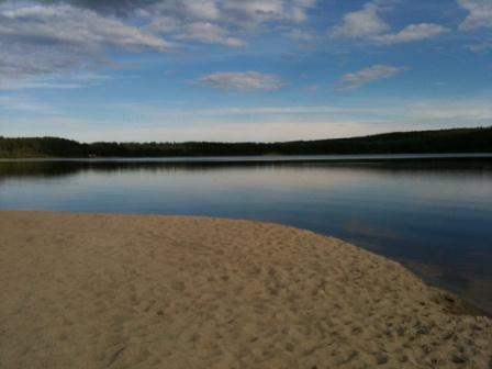 Anundsjösjön photographed from the Sandudden mot Mellansel (Sjönäset)